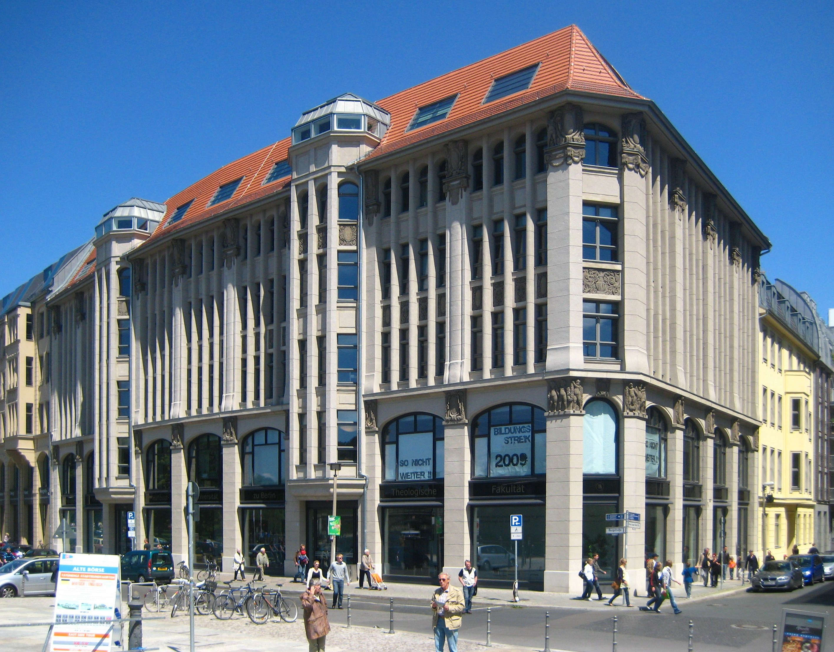 Commercial building at Burgstraße 26, corner of Anna-Louisa-Karsch-Straße in Berlin-Mitte, vis-à-vis the Museum Island. It was built 1910 to 1911 near the Berlin stock echange building (not preserved). Above two-story shops, offices were located. The design of the facade is influenced by Alfred Messel's famous facade for Kaufhaus Wertheim at Leipziger Platz (not preserved). It is now seat of the Theological Faculty of Humboldt University. The building has been designated as a historic landmark.